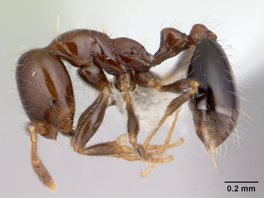 Profile view of ant Solenopsis stricta specimen casent0178147.